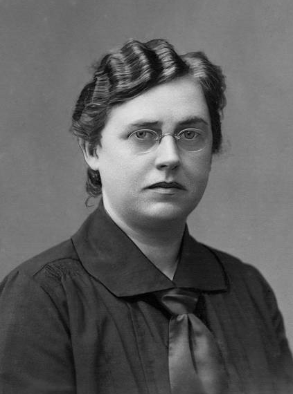 Photograph of the pioneering Danish female politician Helga Larsen (1884-1947)